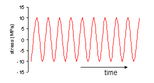 Example of a steady stress history. Uniform alternating loading (Rainflow-counting algorithm).